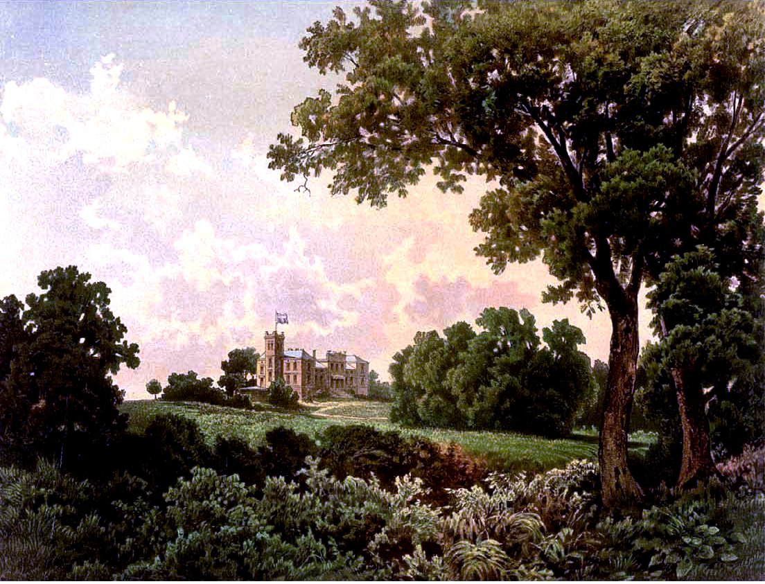 Manor in Waniorowo